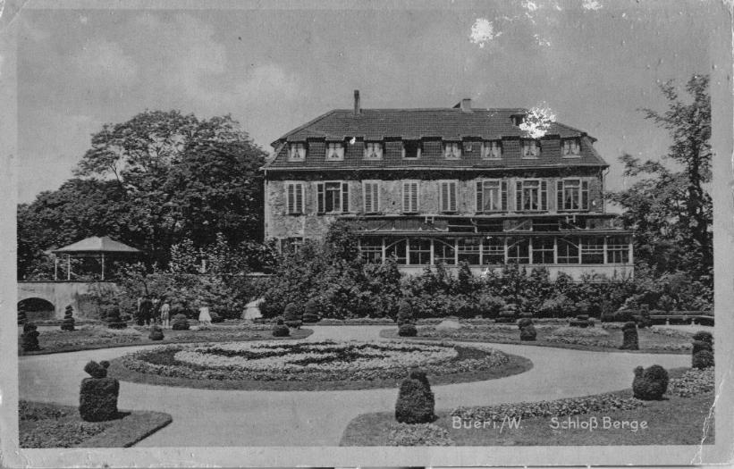 Castle Berge, part of the French garden